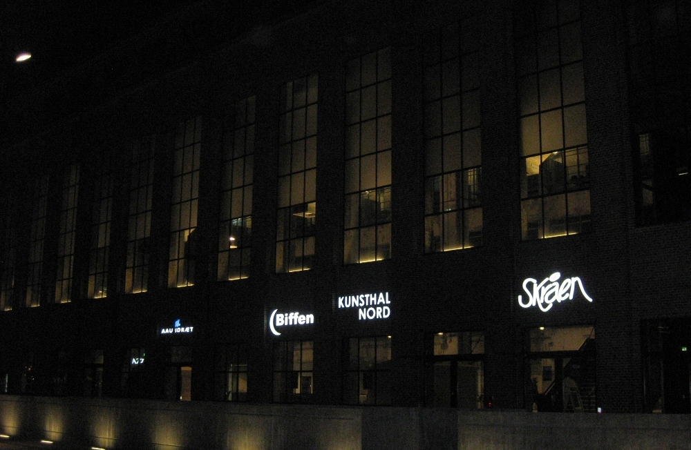 Entrance of Nordkraft, a cultural centre in Aalborg, Denmark